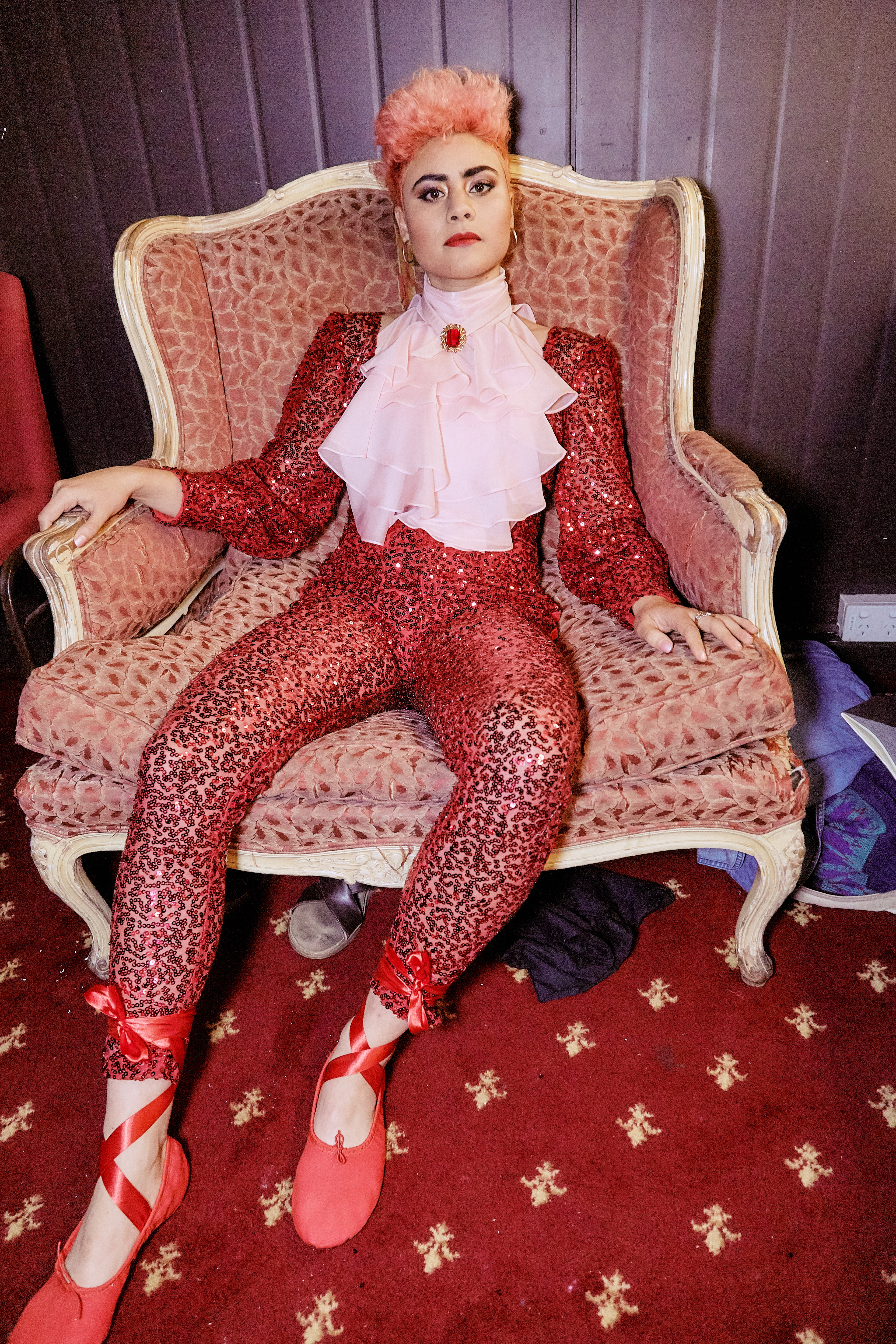 Montaigne April 2019